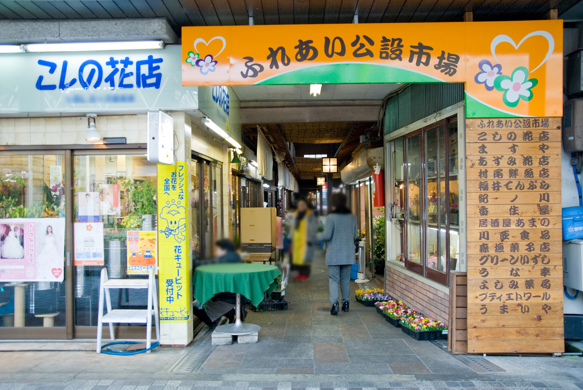 Daikai Street Fureai Kosetu Ichiba.